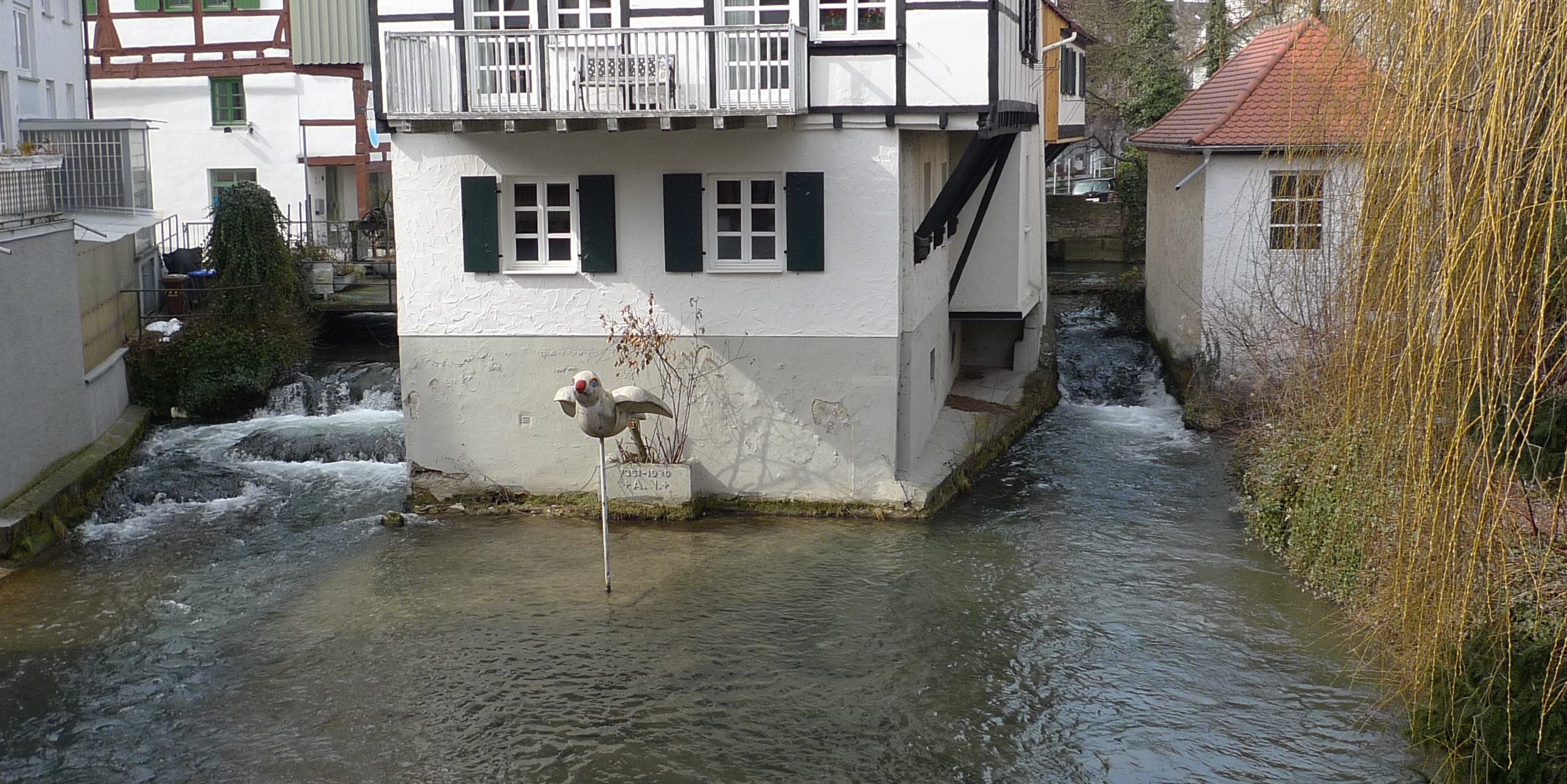 Cinclus cinclus, urban breeding and wintering habitat at river Blau in Ulm, Germany